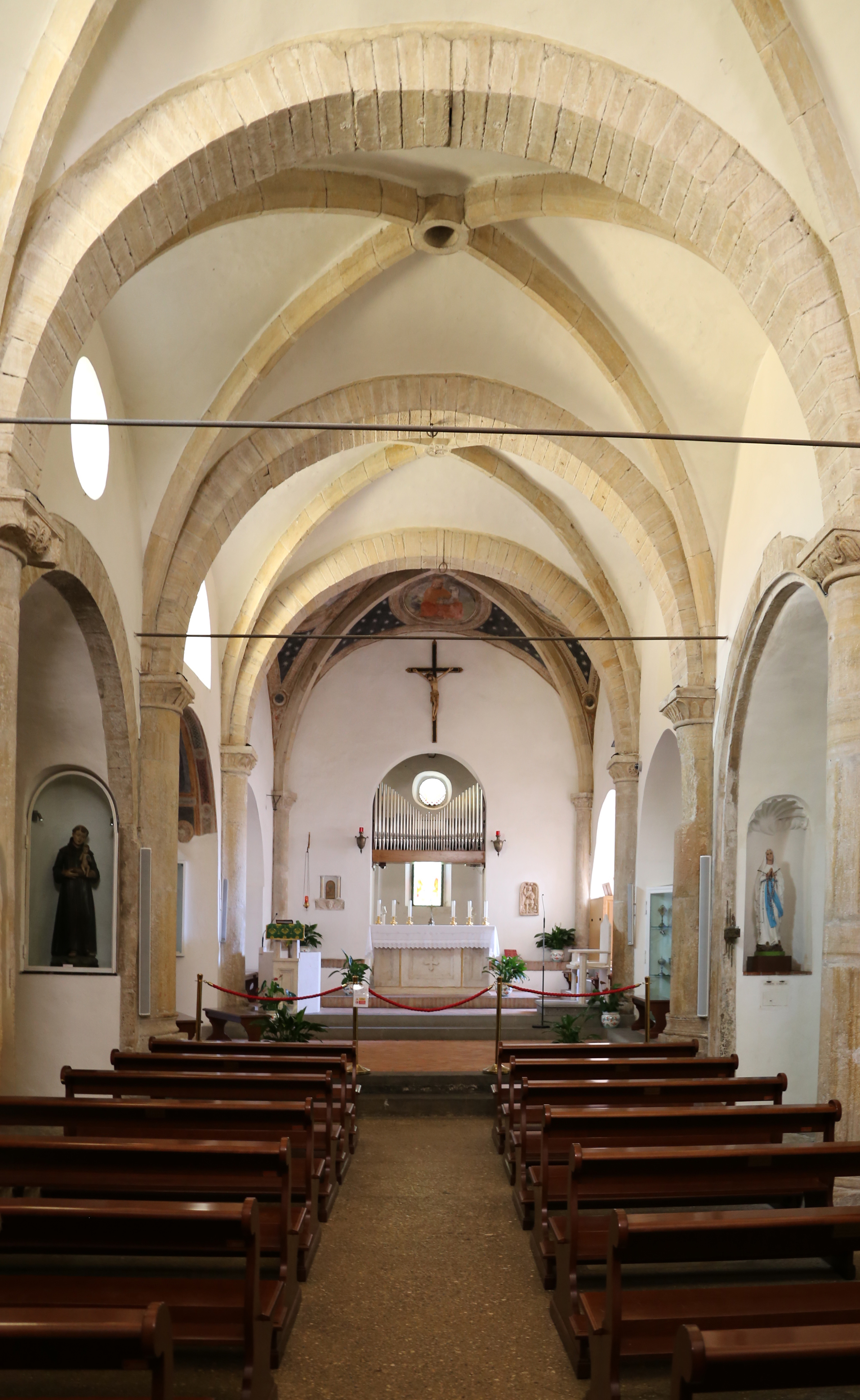 San Nicola (Capalbio) - Interior